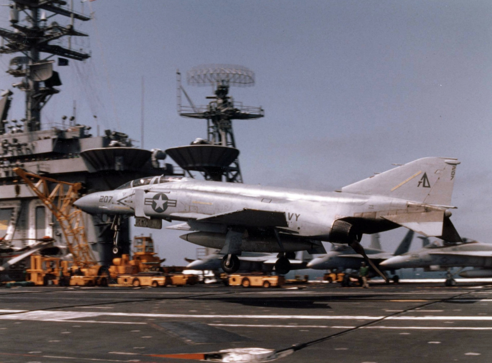 A U.S. Navy McDonnell Douglas F-4S Phantom II from Fighter Squadron VF-171 Aces landing aboard the aircraft carrier USS Carl Vinson (CVN-70).